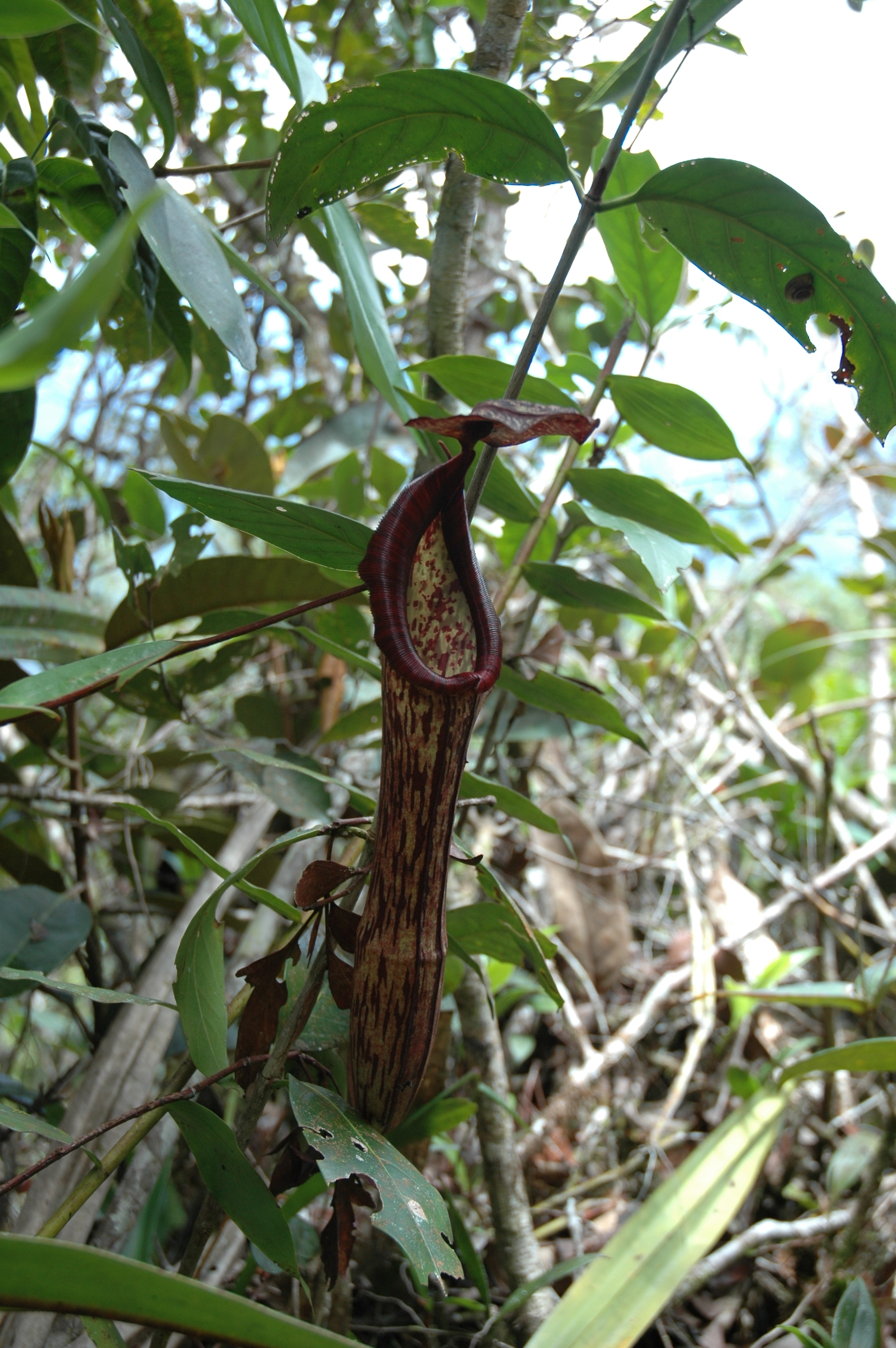 Nepenthes faizaliana Gunung Mulu Pinnacles by Jeremiah Harris